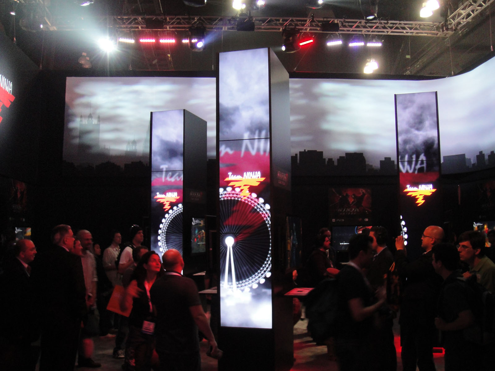 Ninja Gaiden 3 promotion at E3 2011.